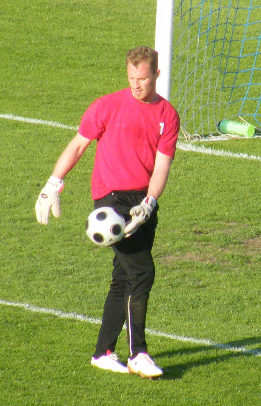 Dániel Illyés Hungarian football player